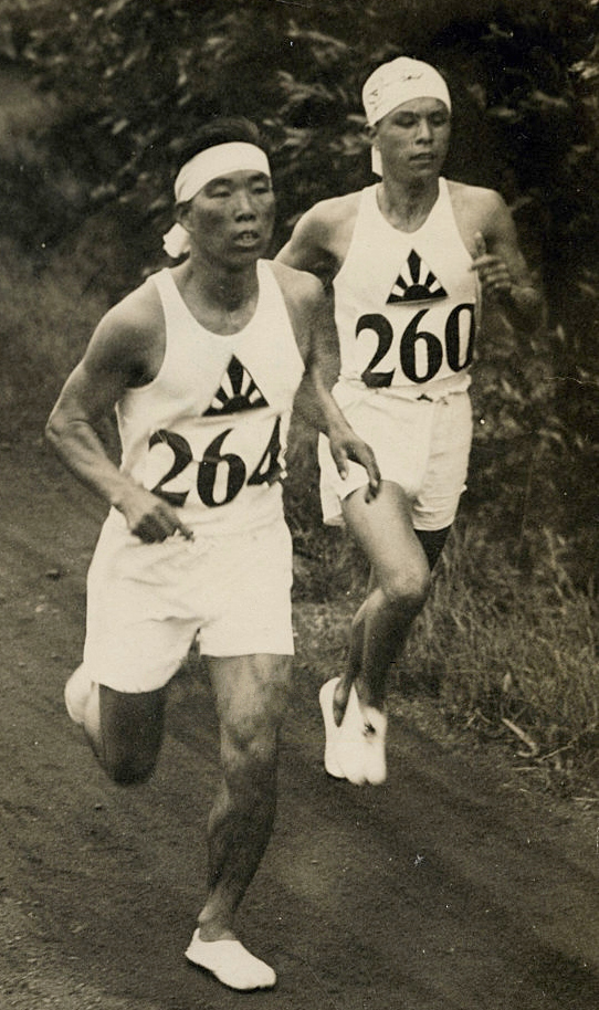 Kanematsu Yamada (left) and Seiichiro Tsuda of Japan compete in the Marathon during the 1928 Amsterdam Olympic on August 5, 1928 in Amsterdam, Netherlands